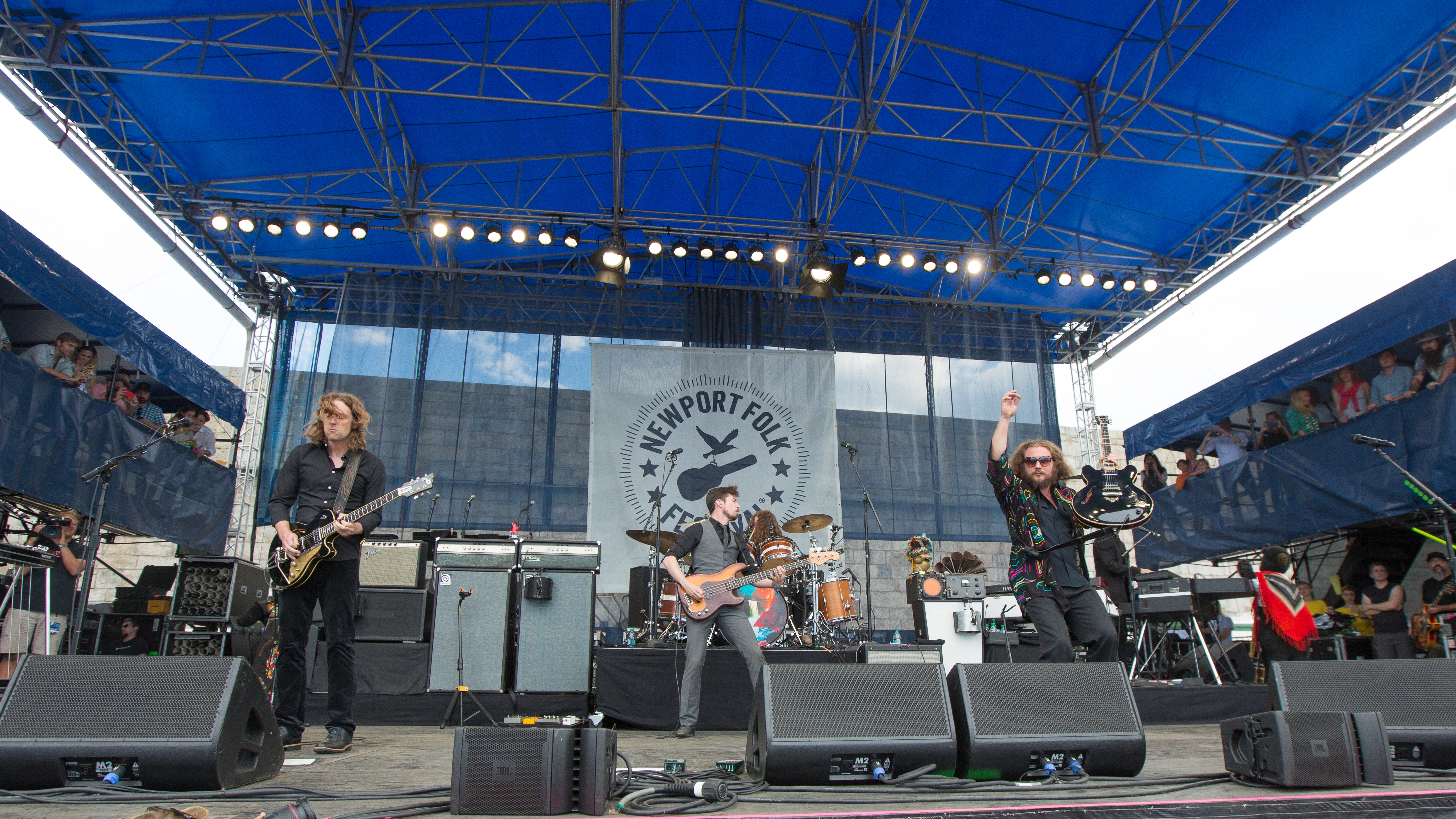 NEWPORT, RHODE ISLAND - JULY 24: Newport Folk Festival kicks off in grand style with a surprise headlining pairing of Roger Waters and My Morning Jacket, joined by Lucius providing background vocals. Other acts performing include Heartless Bastards, Iron & Wine and Sam Bridwell, Tallest Man On Earth, Strand Of Oaks, Calexico, Hiss Golden Messenger, Leon Bridges, and Angel Olsen. Shot at Fort Adams State Park on Friday, July 24, 2015.